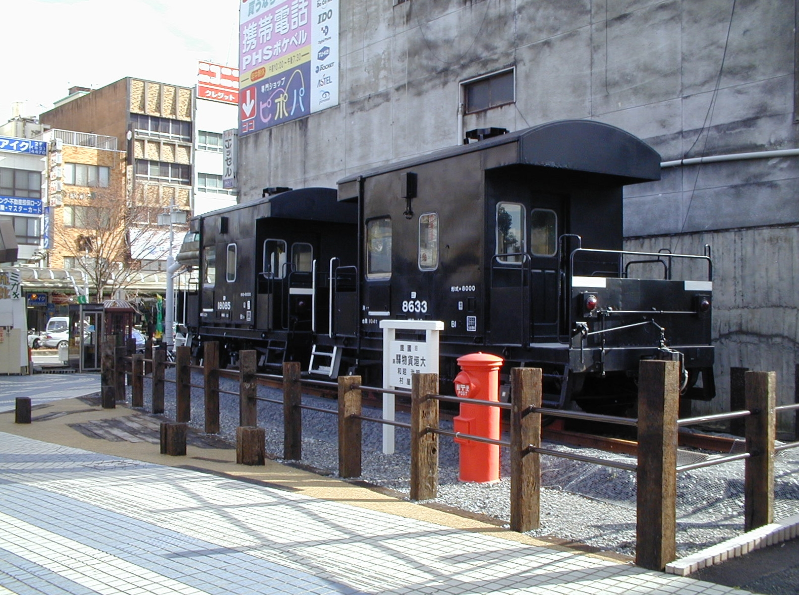 Preserved Yo 8000 brake vans in front of Ogaki Station in Gifu Prefecture, Japan